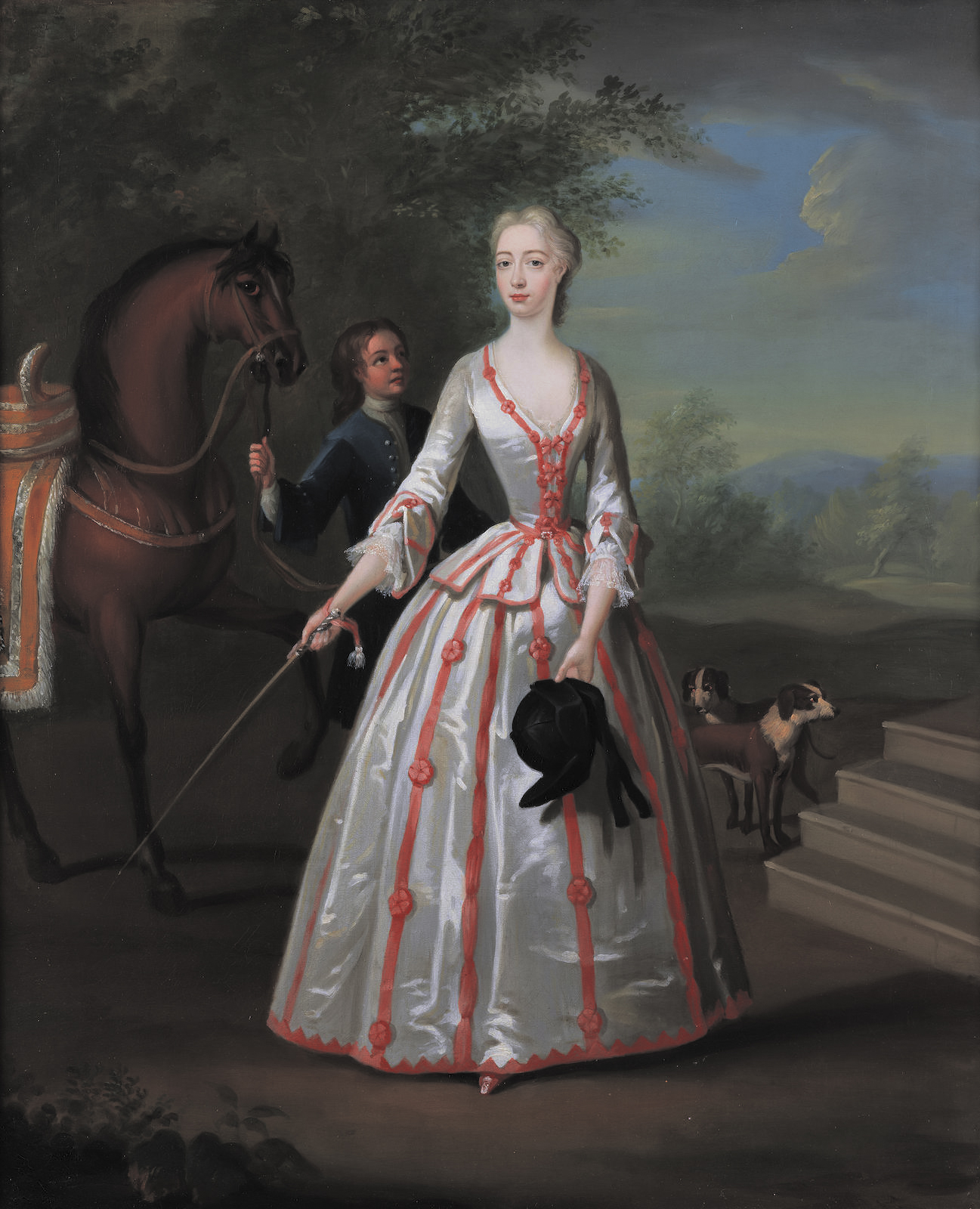 Elizabeth Horton (d. 1740) was the daughter of Christopher Horton of Catton, Derbyshire, later wife of Bowyer Adderely of Hams Hall, Warwickshire oil on canvas 76.4 x 63.8 cm